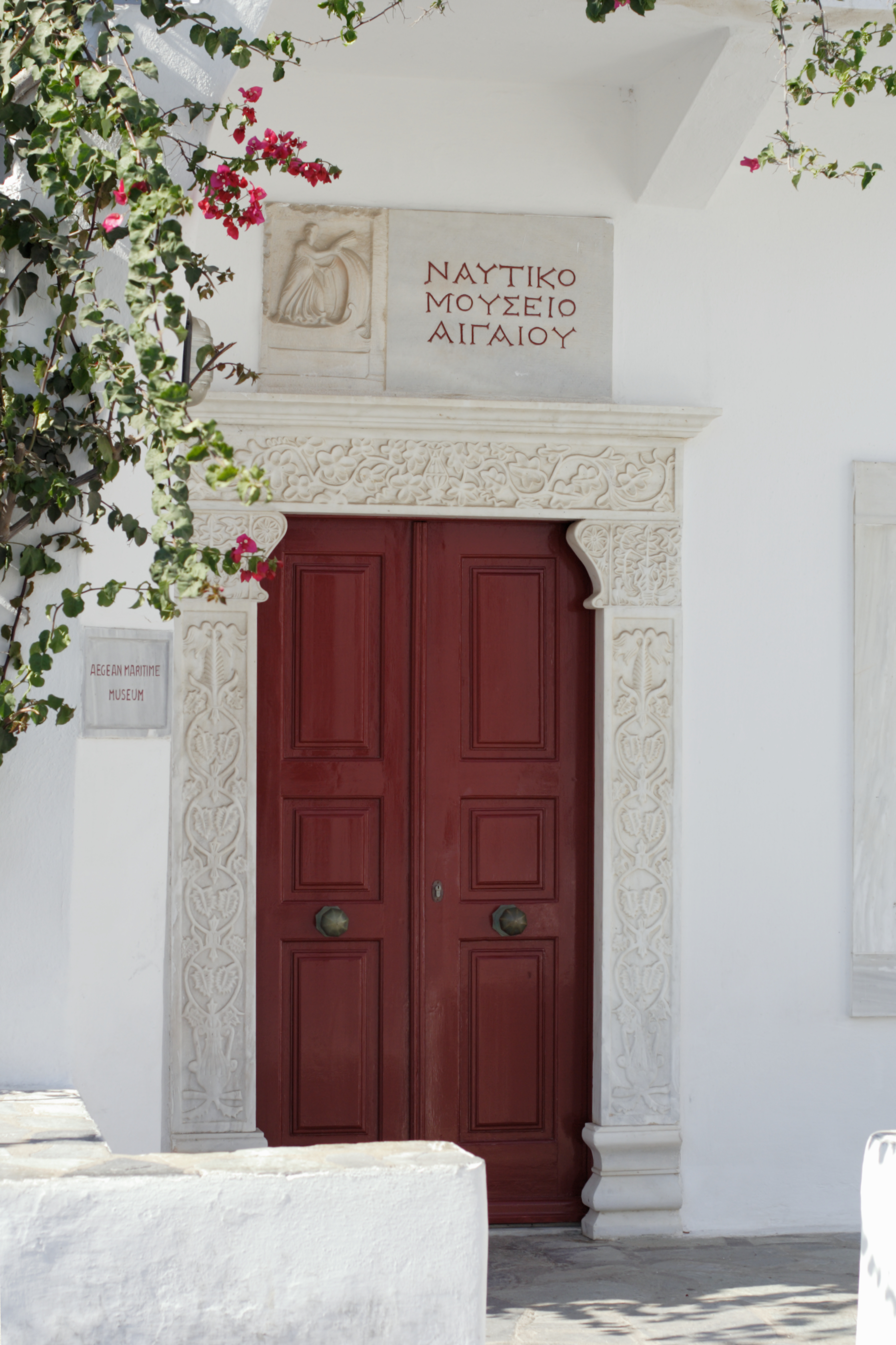 The entrance to the Aegean Maritime Museum in Mykonos Town Chora (Cyclades).